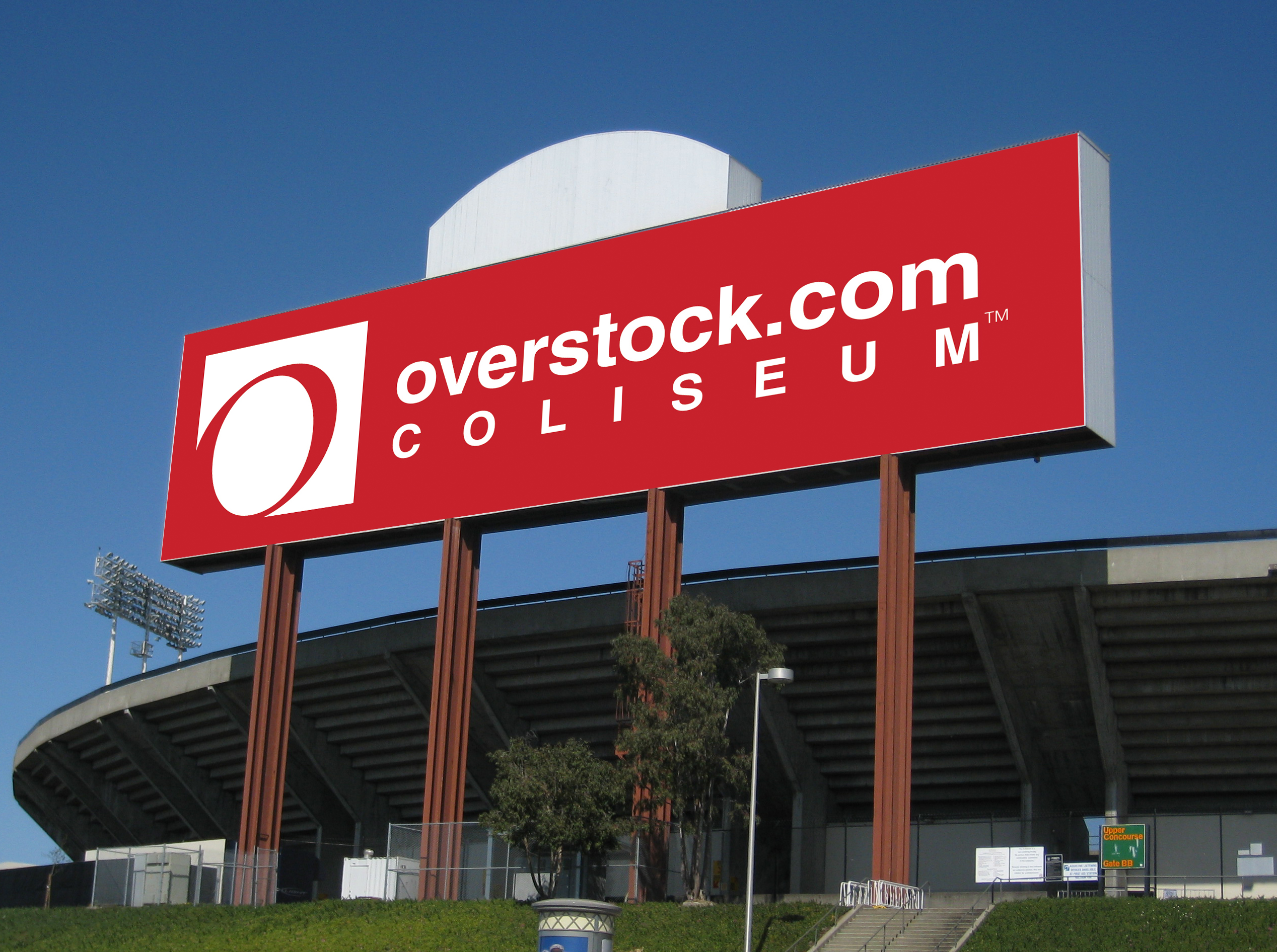 Coliseum scoreboard